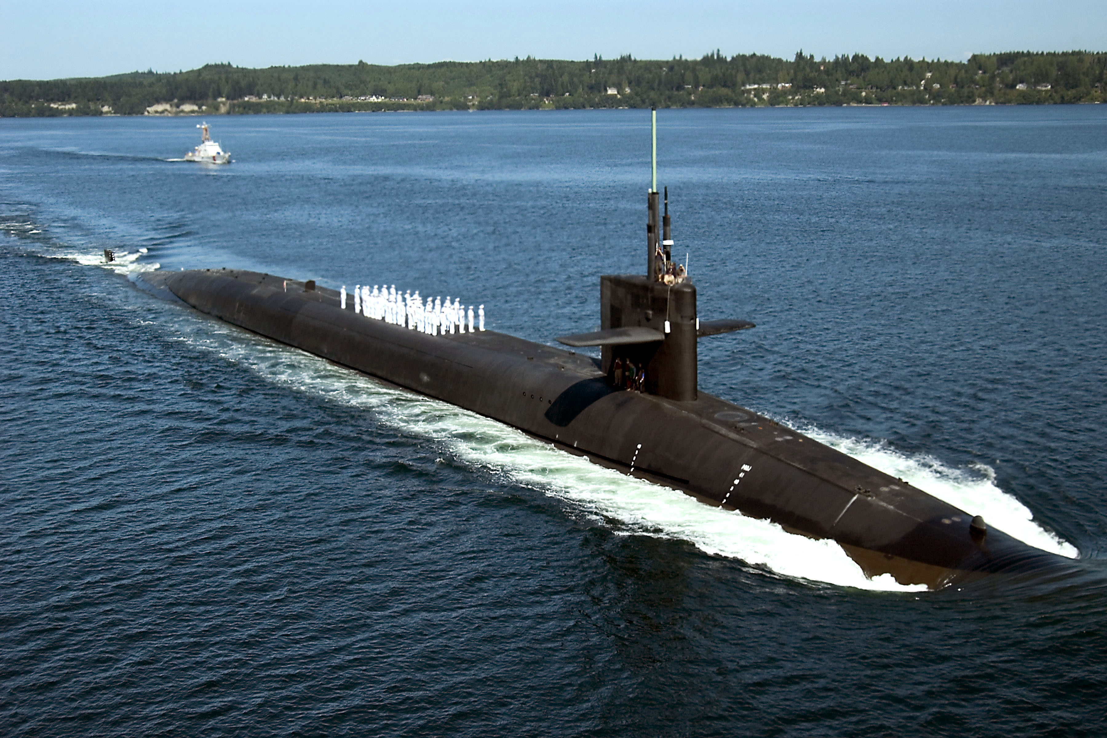 Sailors assigned to the Ohio-class fleet ballistic missile submarine USS Pennsylvania (SSBN 735) spell out the word “Fifty” as they return to Naval Base Kitsap, Navy Region Northwest. Pennsylvania has just completed its 50th Patrol at sea and a significant moment in history for the submarine.